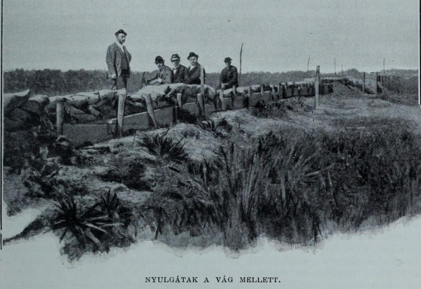 Emergency dam